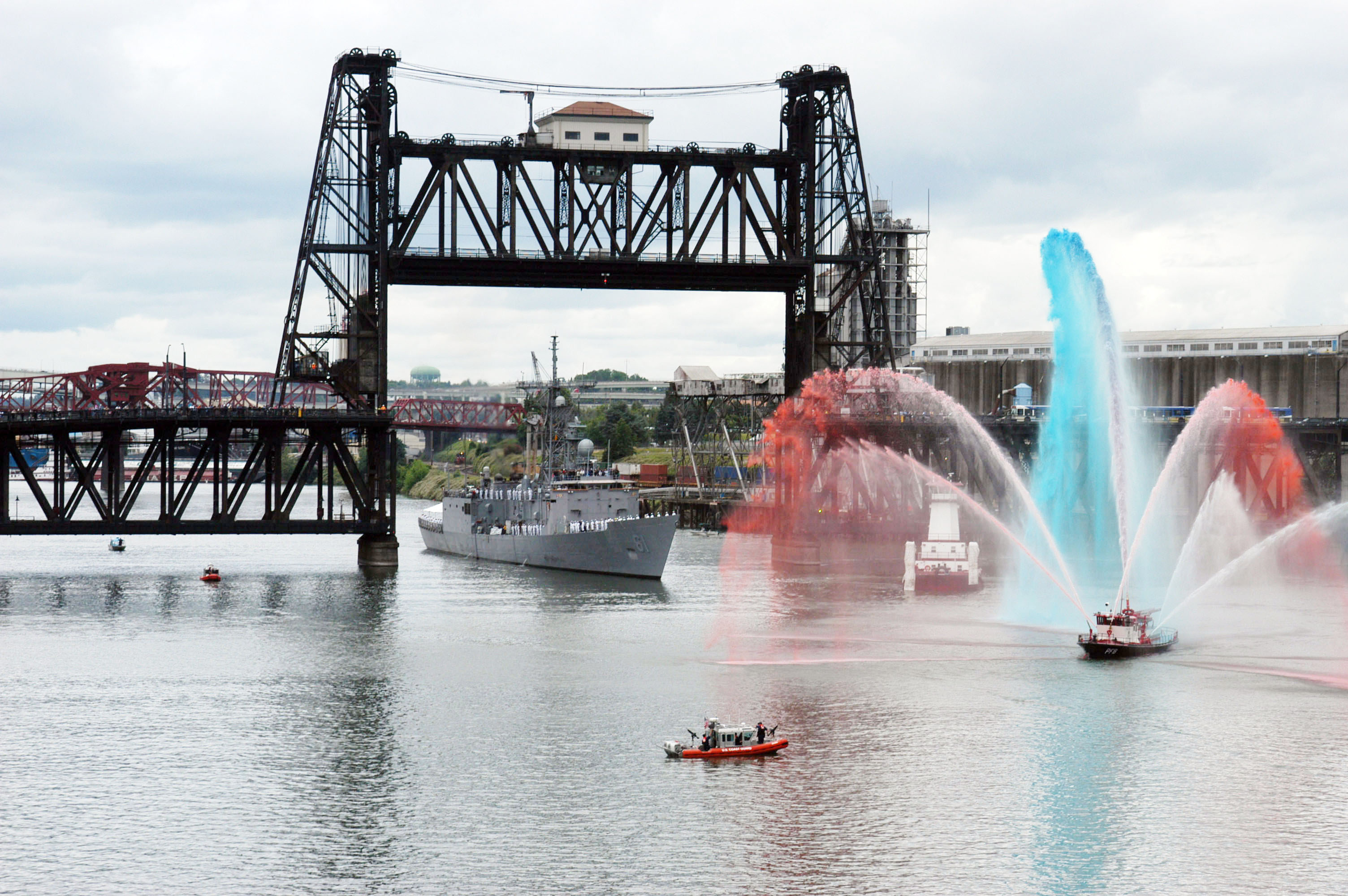 Portland, Ore. (June 8, 2006) - A Portland fire boat greets the guided-missile frigate USS Ingraham (FFG 61) with red, white and blue water streams as she passes under the Willamette river’s Steel Bridge. Ingraham is one of four U.S. Navy ships pulling into Portland during Fleet Week for the 99th annual Rose Festival celebration.